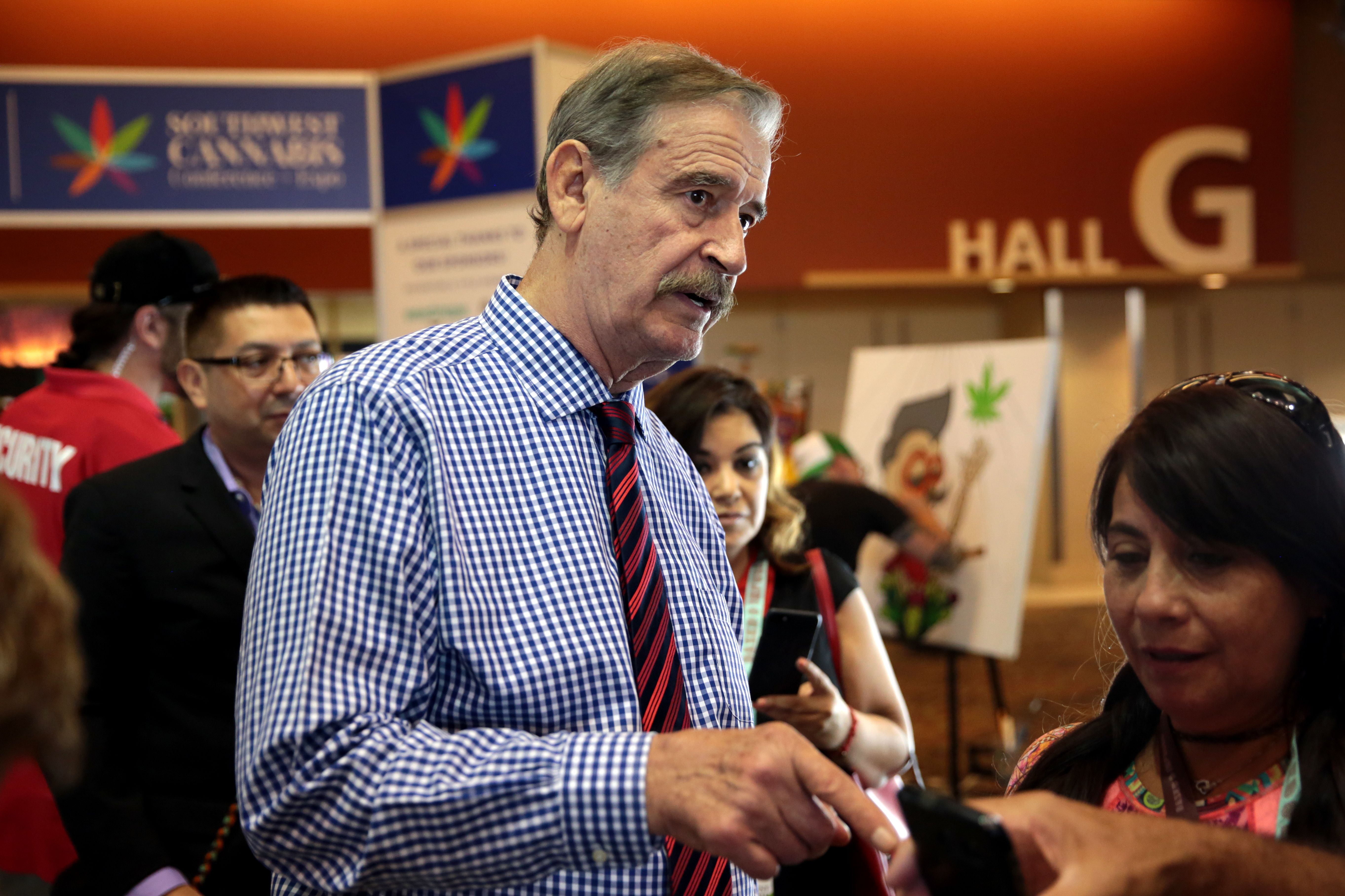 Former President of Mexico Vicente Fox speaking with attendees at the 3rd Annual Southwest Cannabis Conference & Expo at the Phoenix Convention Center in Phoenix, Arizona.